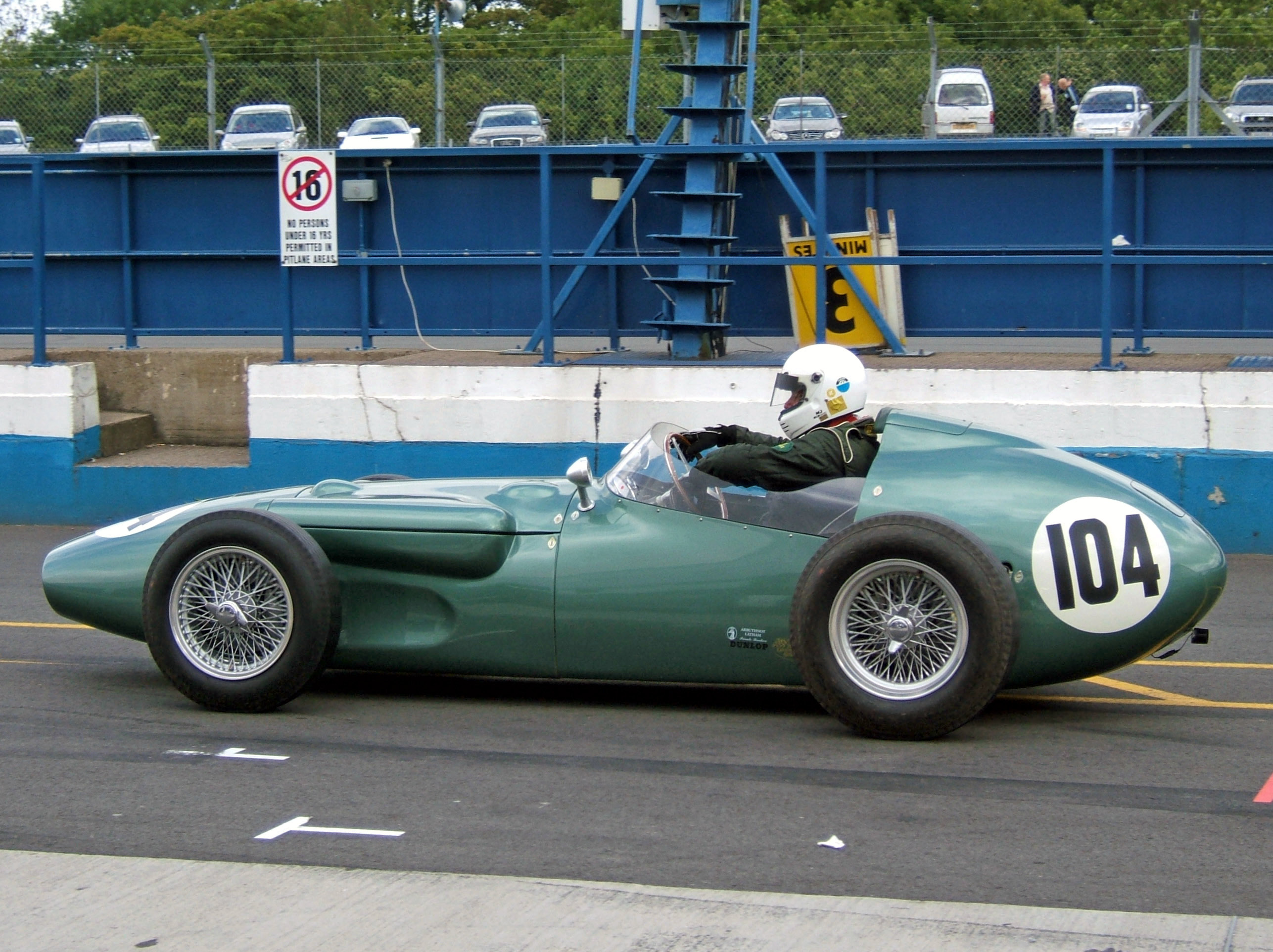 An Aston Martin DBR4 returns to the pits following practice during the VSCC SeeRed race meeting, Donington Park, September 2007.